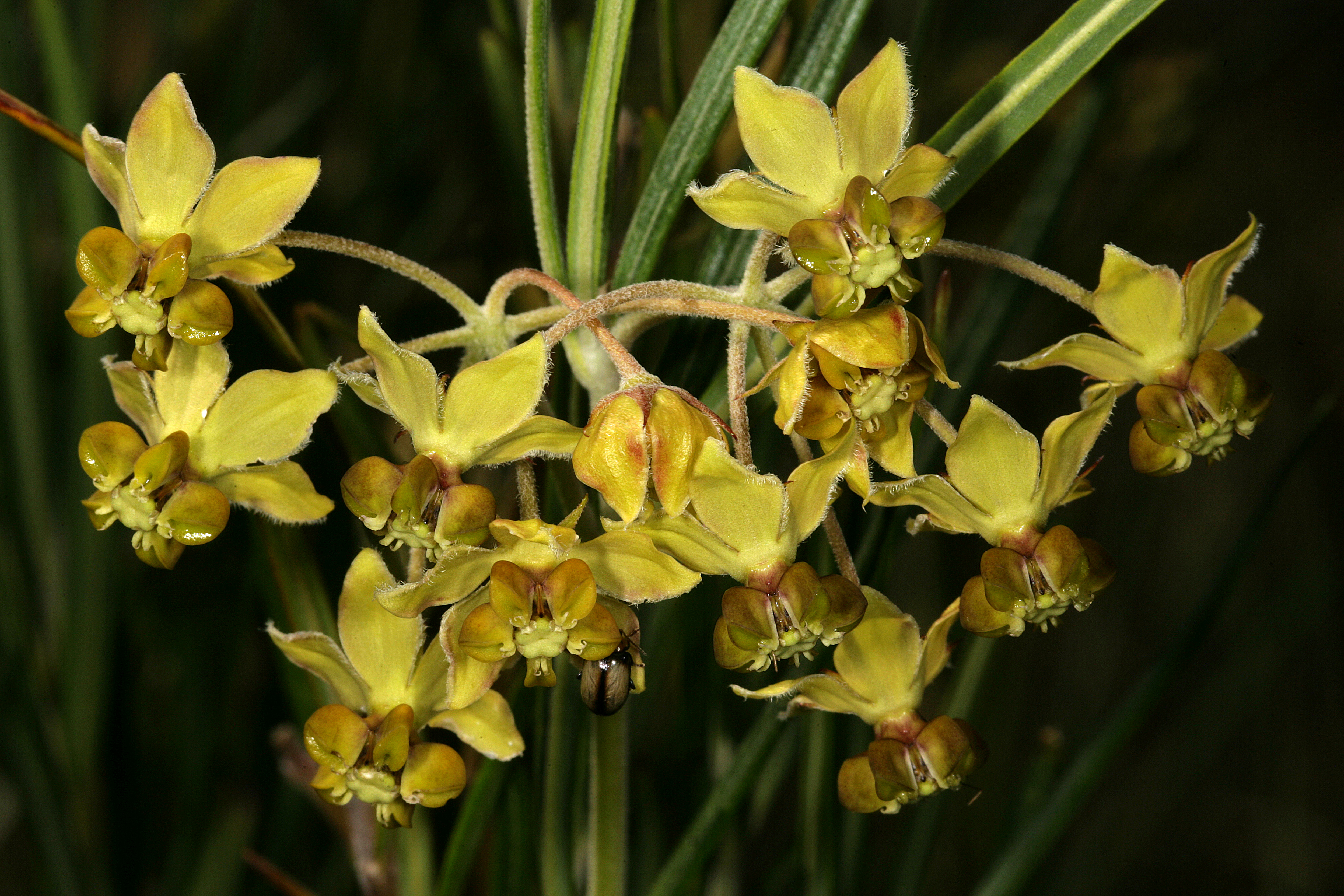 Gomphocarpus fruticosus subsp. decipiens, flowers; Ezemvelo Nature Reserve, Telperion, Bronkhorstspruit, Mpumalanga, South Africa